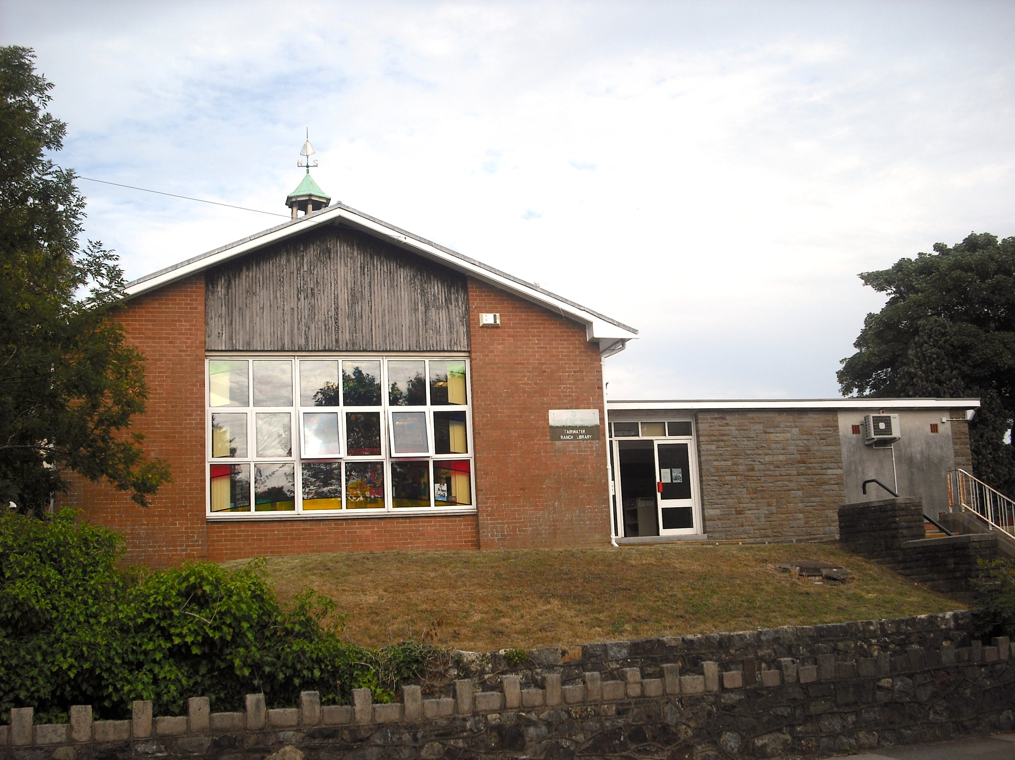 Fairwater Library in Cardiff